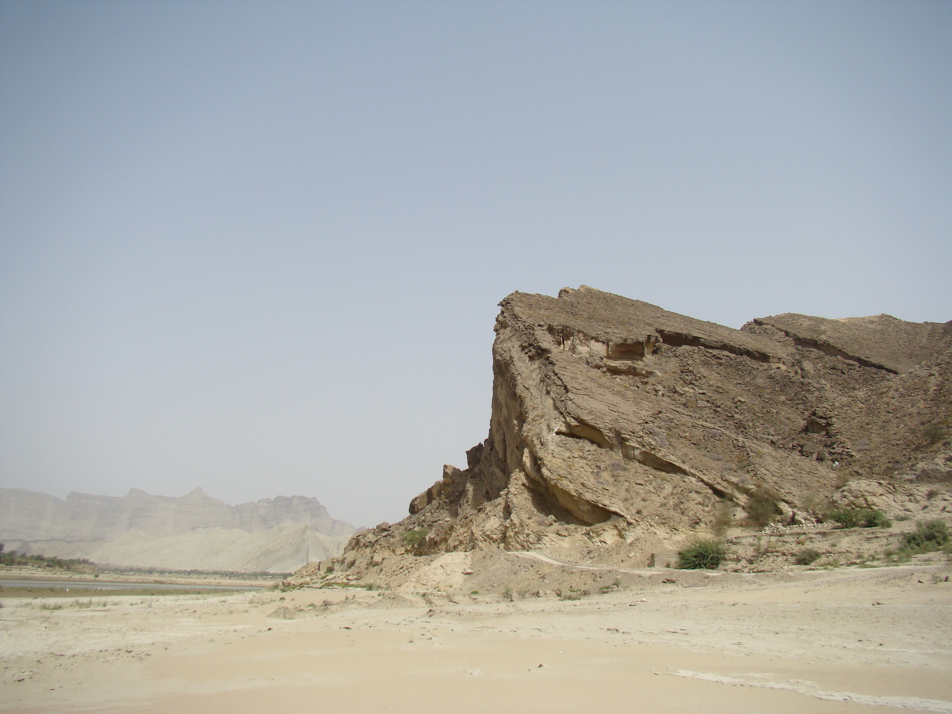 A rock outcropping in Hingol National Park in Pakistan.